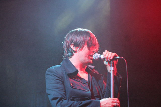 Australian Band "Grinspoon" Lead singer Phil Jamieson.